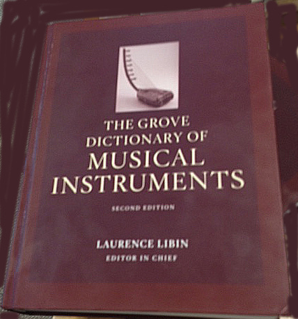 Photo of Grove Dictionary of Musical Instruments Cover